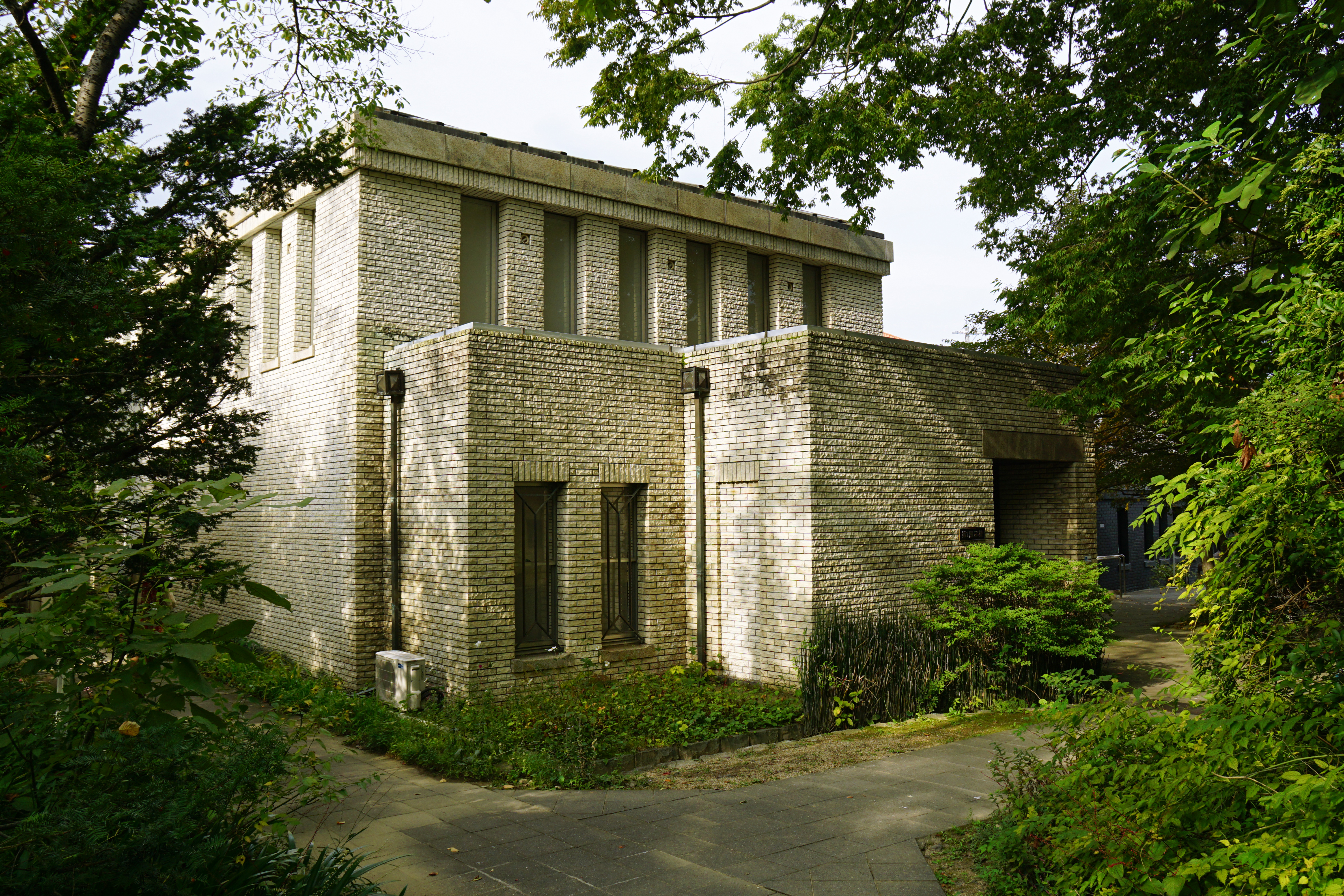 Rokuzan Art Museum in Azumino, Nagano prefecture, Japan